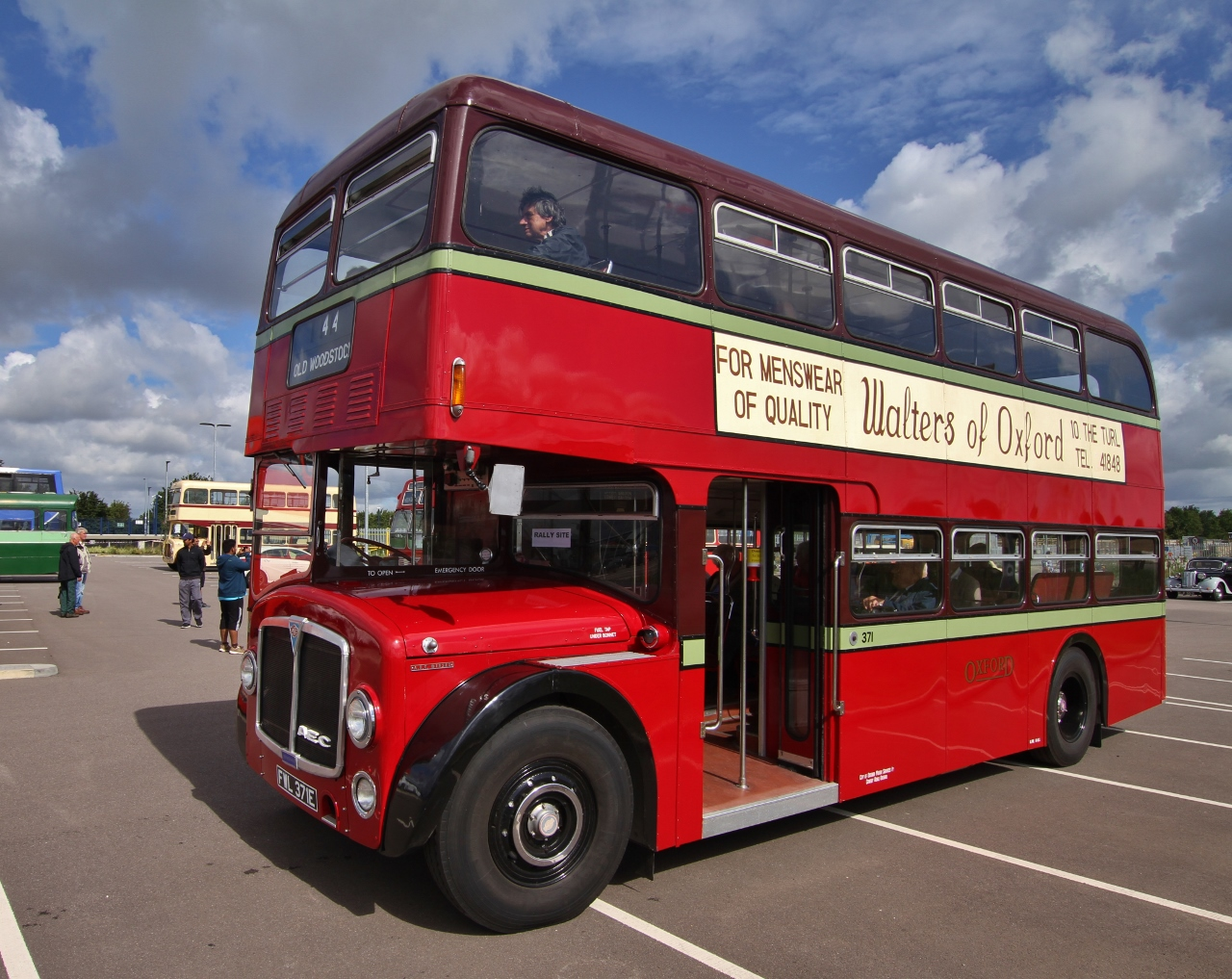 1967 AEC Renown bus with Northern Counties body, registration mark FWL 371E, at Oxford Parkway railway station in Oxfordshire